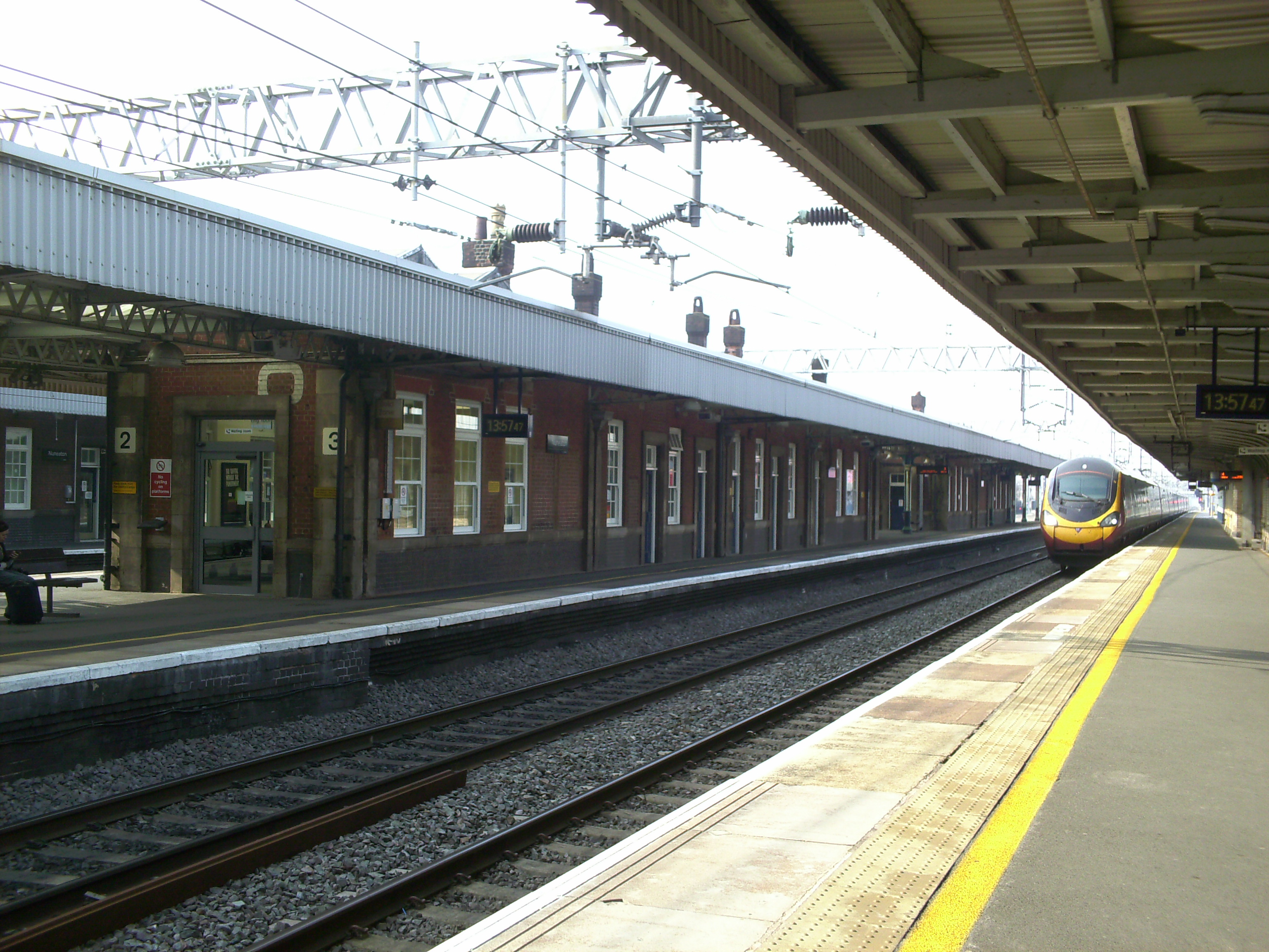 Nuneaton Railway Station. Class 390 arrives platfrom 4. This train is running from Liverpool Lime Street to London Euston.